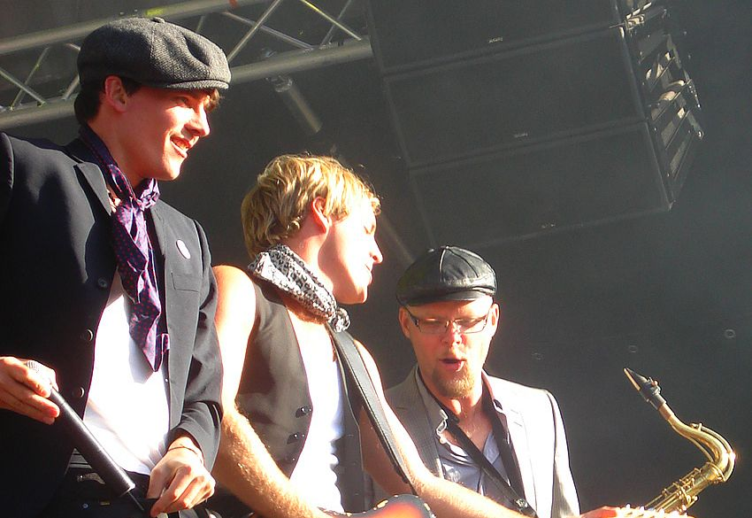 author: Agnieszka Szwarc